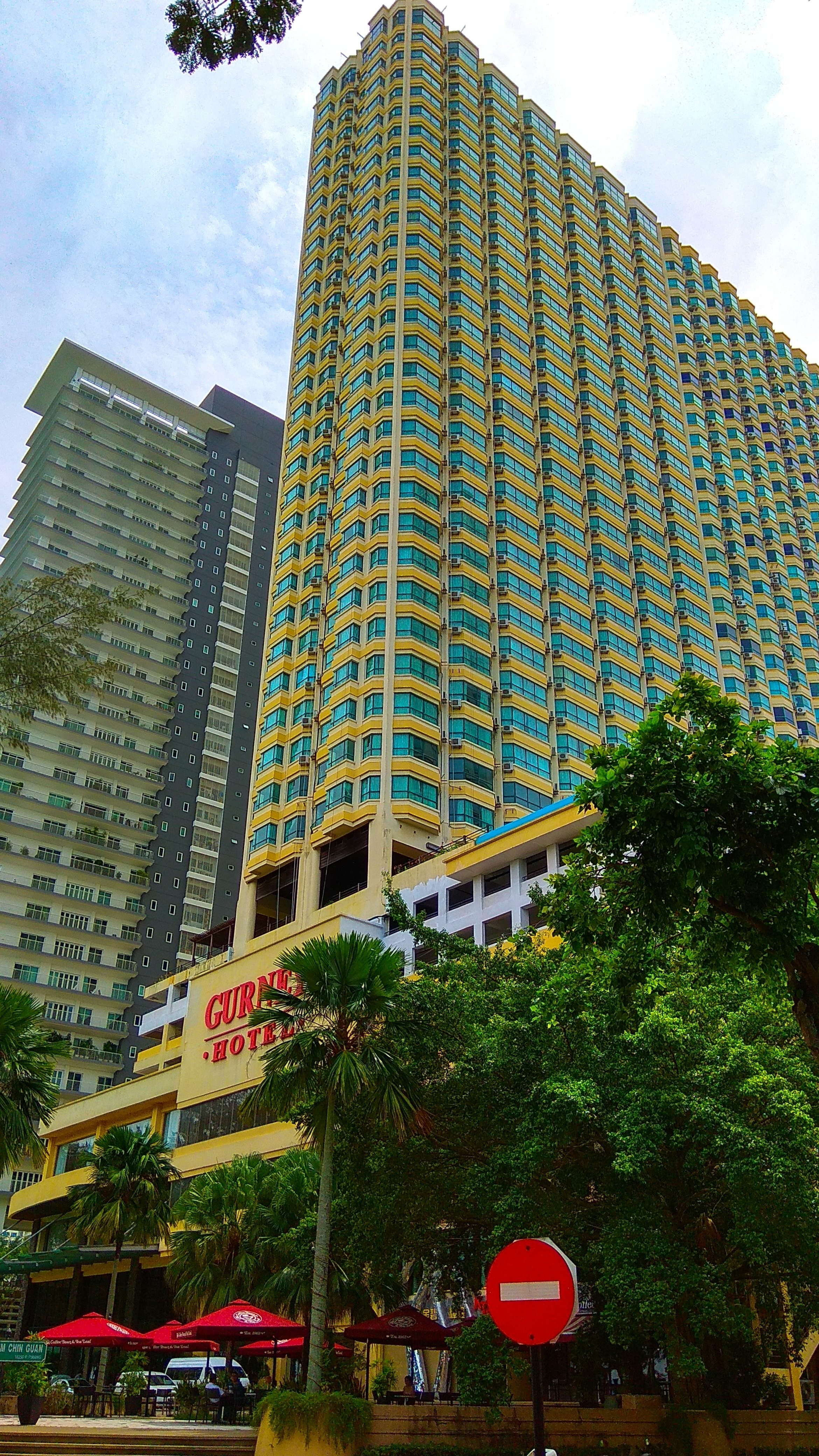 Gurney Resort Hotel & Residences at Gurney Drive in the city of George Town in Penang, Malaysia